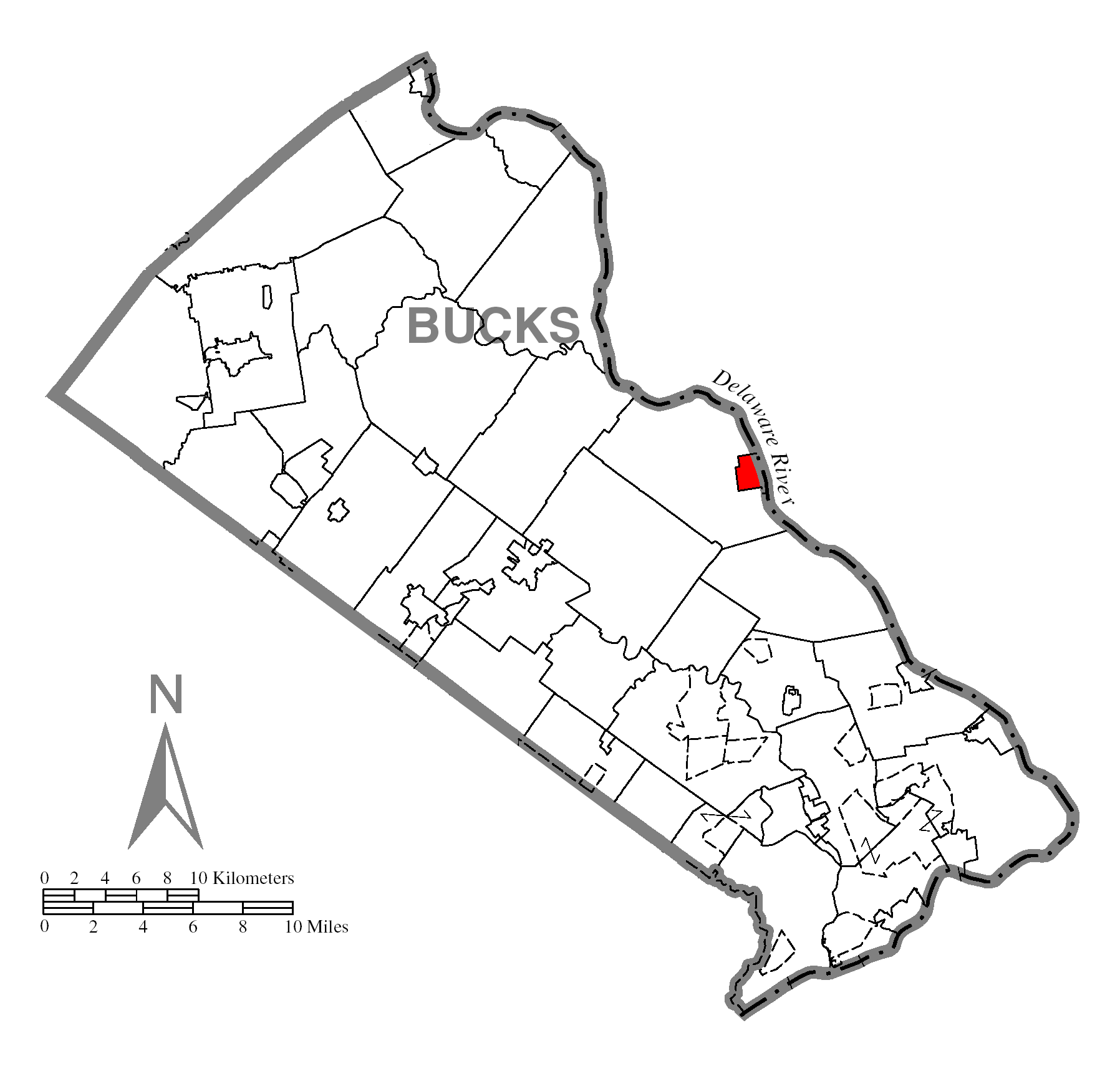 A map of Bucks County showing New Hope, Pennsylvania (alternate) highlighted on the map.